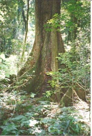 Black_Booyong_-_Tooloom Scrub